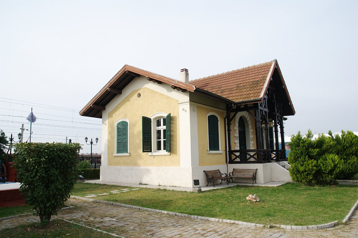 GREECE: The building of the Military Station (Gare Militaire) of the Jonction - Salonique - Constantinople Ottoman Railway. Later used by the Hellenic State Railways. Recently restored (2001), houses the collections of the Railway Museum of Thessaloniki.